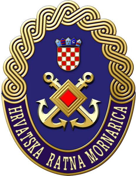 Seal of Croatian Navy